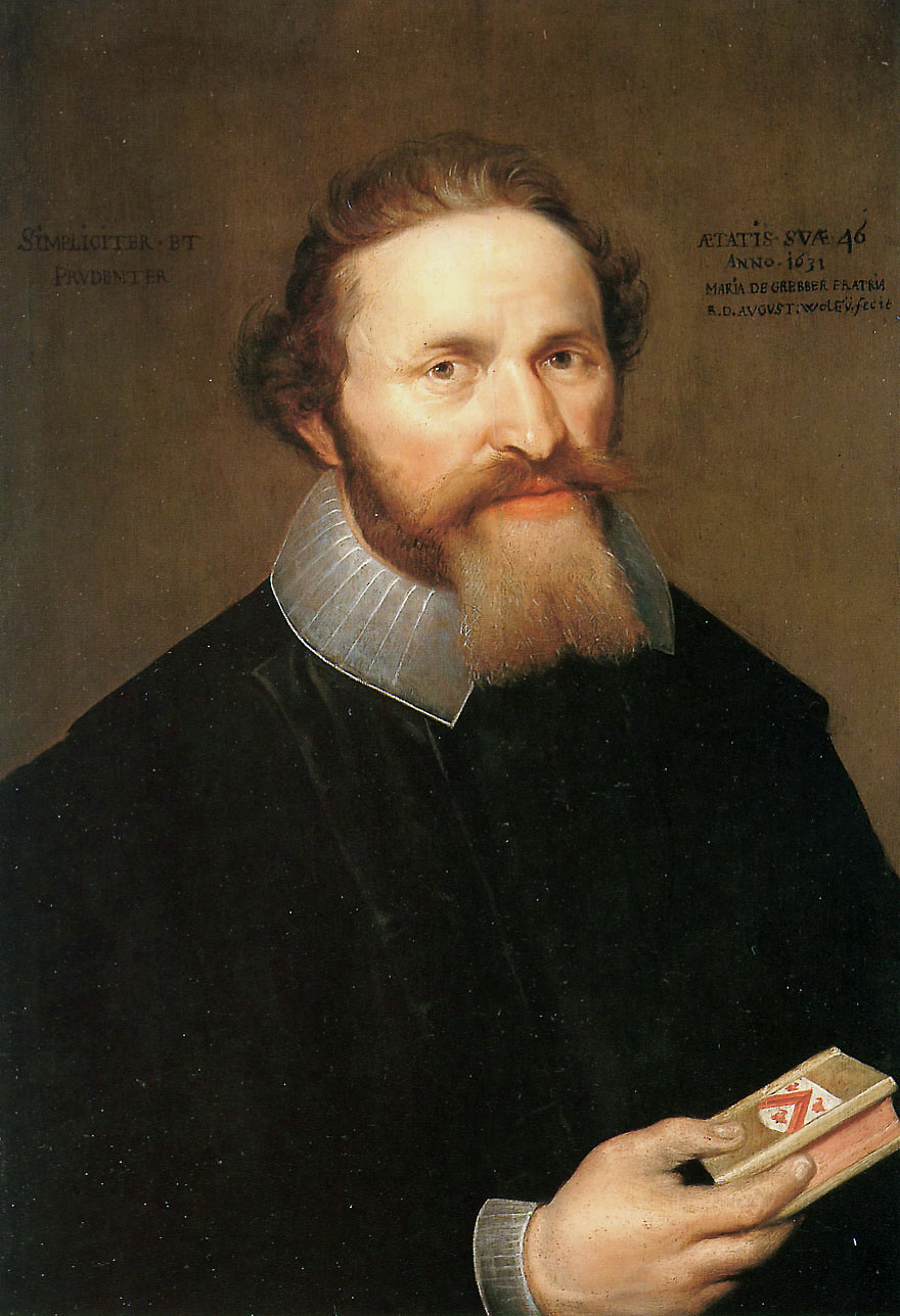 Portrait of Augustinus de Wolff, the brother-in-law of the artist This image is available from the Netherlands Institute for Art Historyunder digital ID 61135. This tag does not indicate the copyright status of the attached work. A normal copyright tag is still required. See Commons:Licensing.